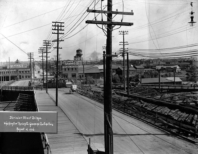 Caption on image: Division Street Bridge, Washington Paving Co. General Contractors, August 4, 1916; On verso of image: George Milton Savage was president of Washington Paving Company. PH Coll 229.92 Subjects (LCSH): Division Street Bridge (Spokane, Wash.); Bridges--Washington (State)--Spokane; Division Street Spokane, Wash.); Streets--Washington (State)--Spokane; Sammis Monuments (Spokane, Wash.); Grocers--Washington (State)--Spokane; Carriages and carts--Washington (State)--Spokane